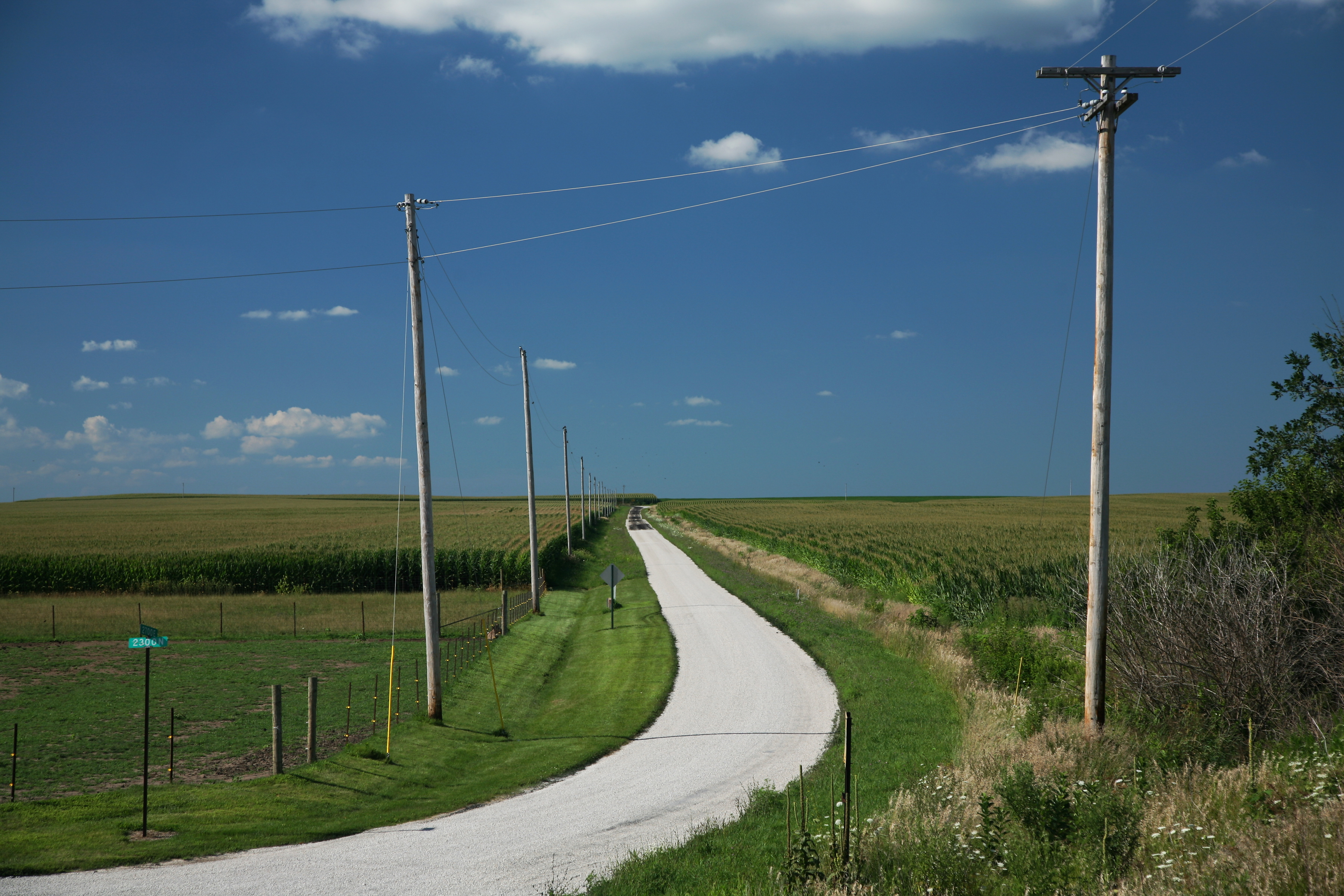 Farm road in Champaign County, Illinois